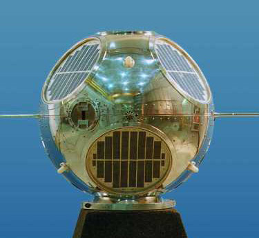 GRAB satellite model on display at the National Cryptologic Museum, USA